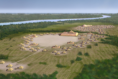 Artists conception of the Caddoan Mississippian culture Spiro Mounds Site in eastern Oklahoma on the Arkansas River. Occupied between 800 to 1450 CE, the site was a major regional power. The illustration shows the large Brown Mound at the center of the site next to the oval shaped the plaza to the west ringed by smaller house mounds. To the southeast is the famous Craigs Mound, or "The Great Mortuary Mound", with its distinctive profile.